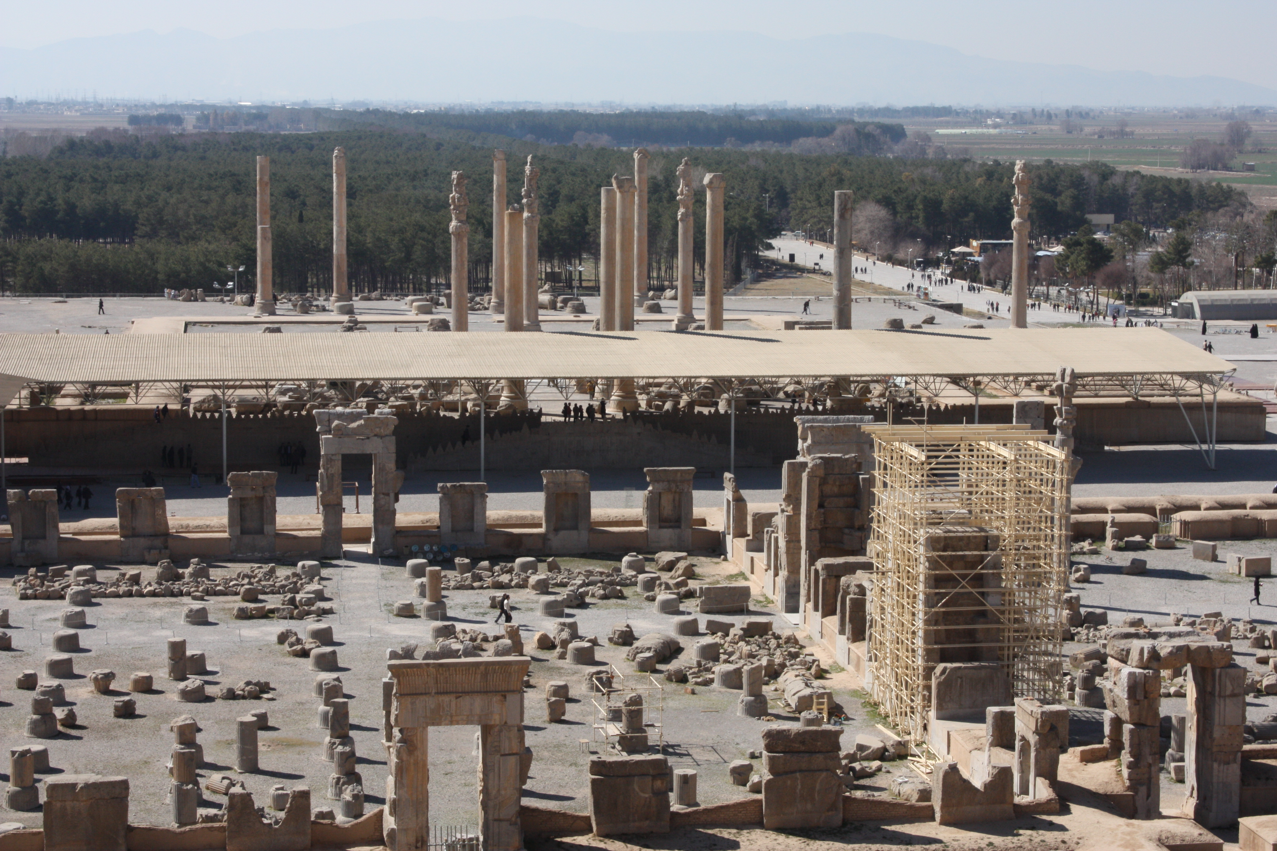 Persepolis in Shiraz